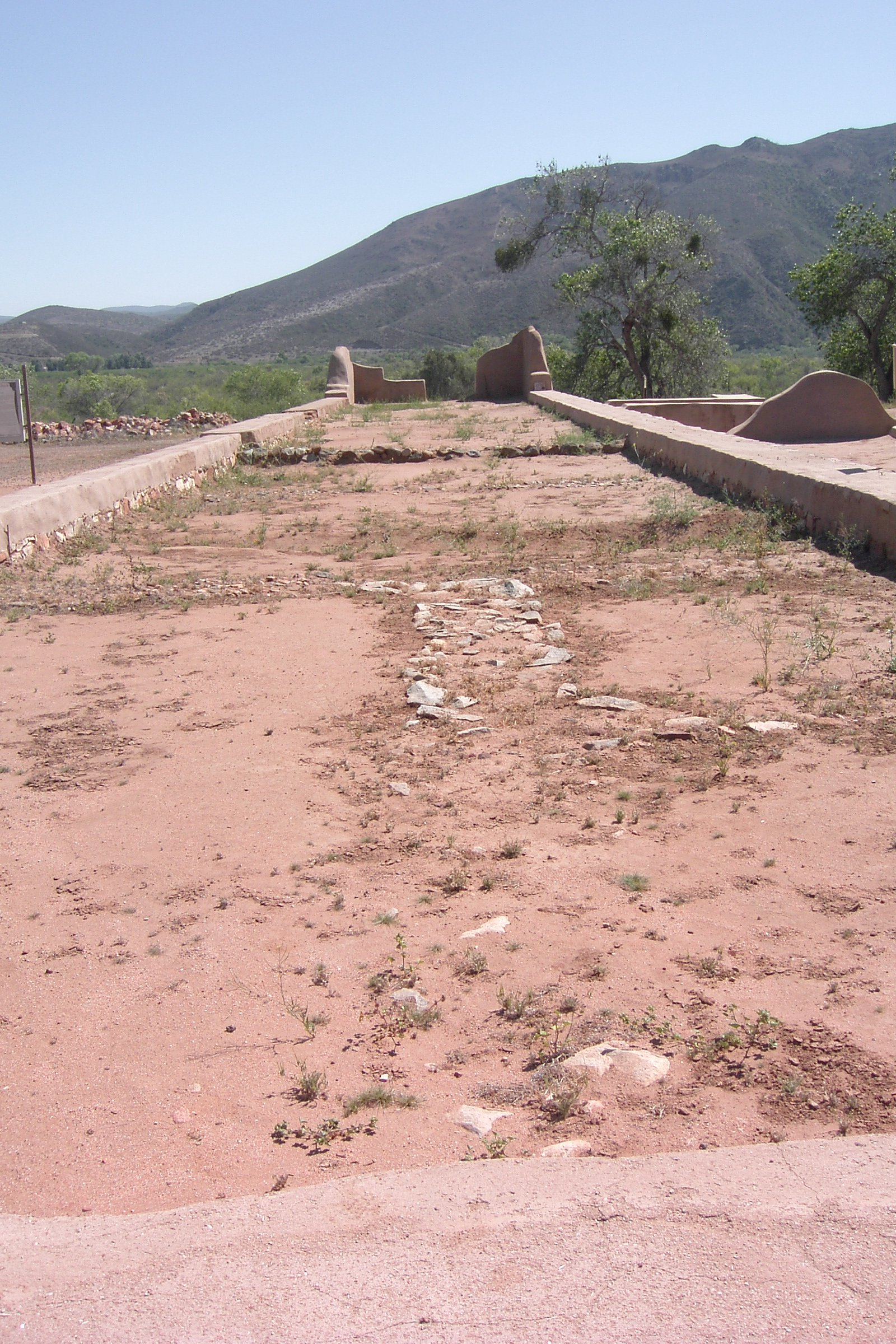 Photo of the San Vicente Ferrer Church taken on 20 May 2006.